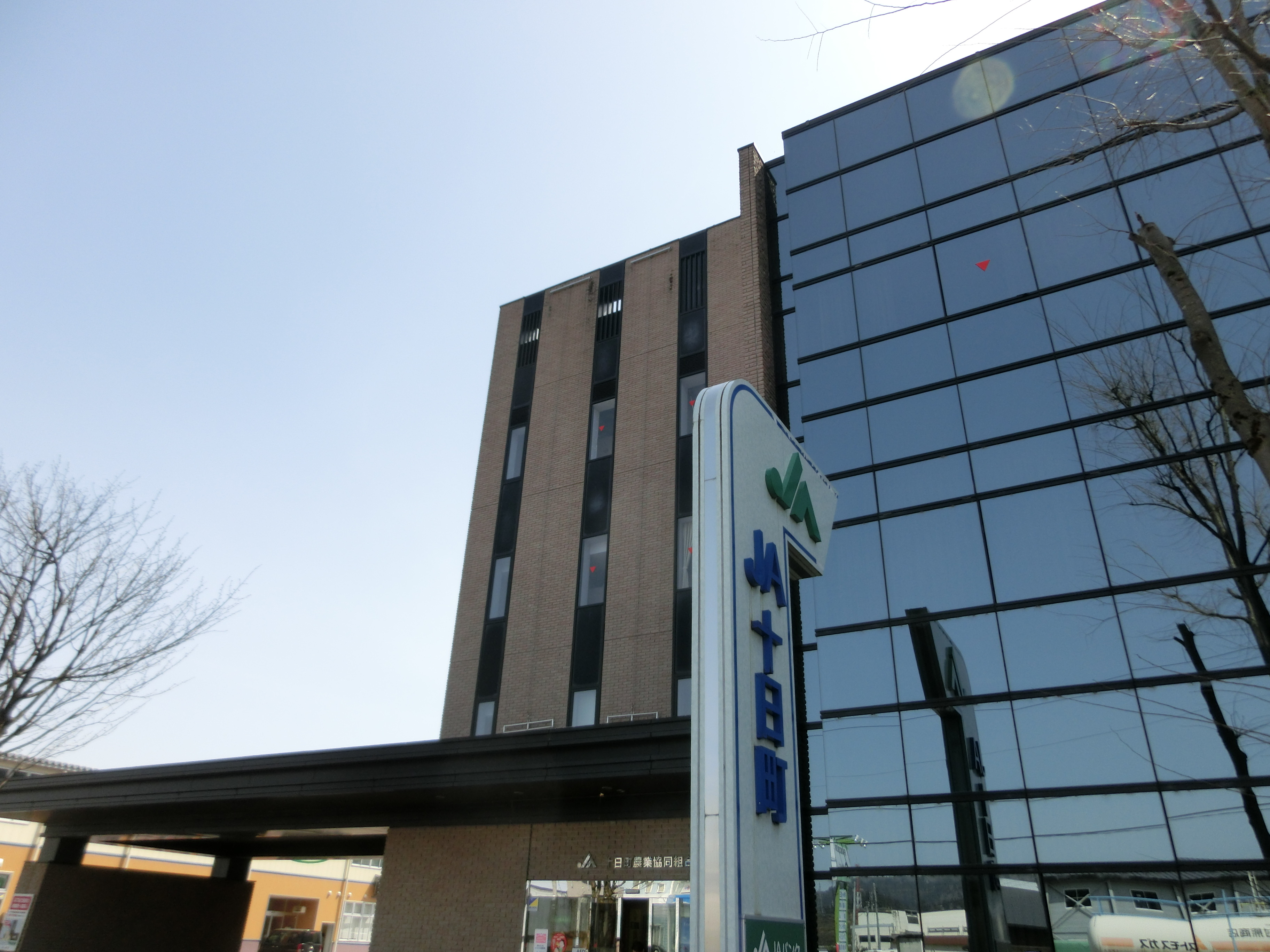 JA Tokamachi Headquarters